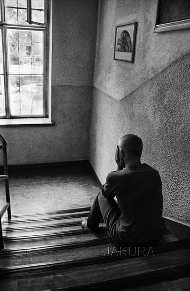 Jaroslav Kučera´s photography Personality rights warningAlthough this work is freely licensed or in the public domain, the person(s) shown may have rights that legally restrict certain re-uses unless those depicted consent to such uses. In these cases, a model release or other evidence of consent could protect you from infringement claims.